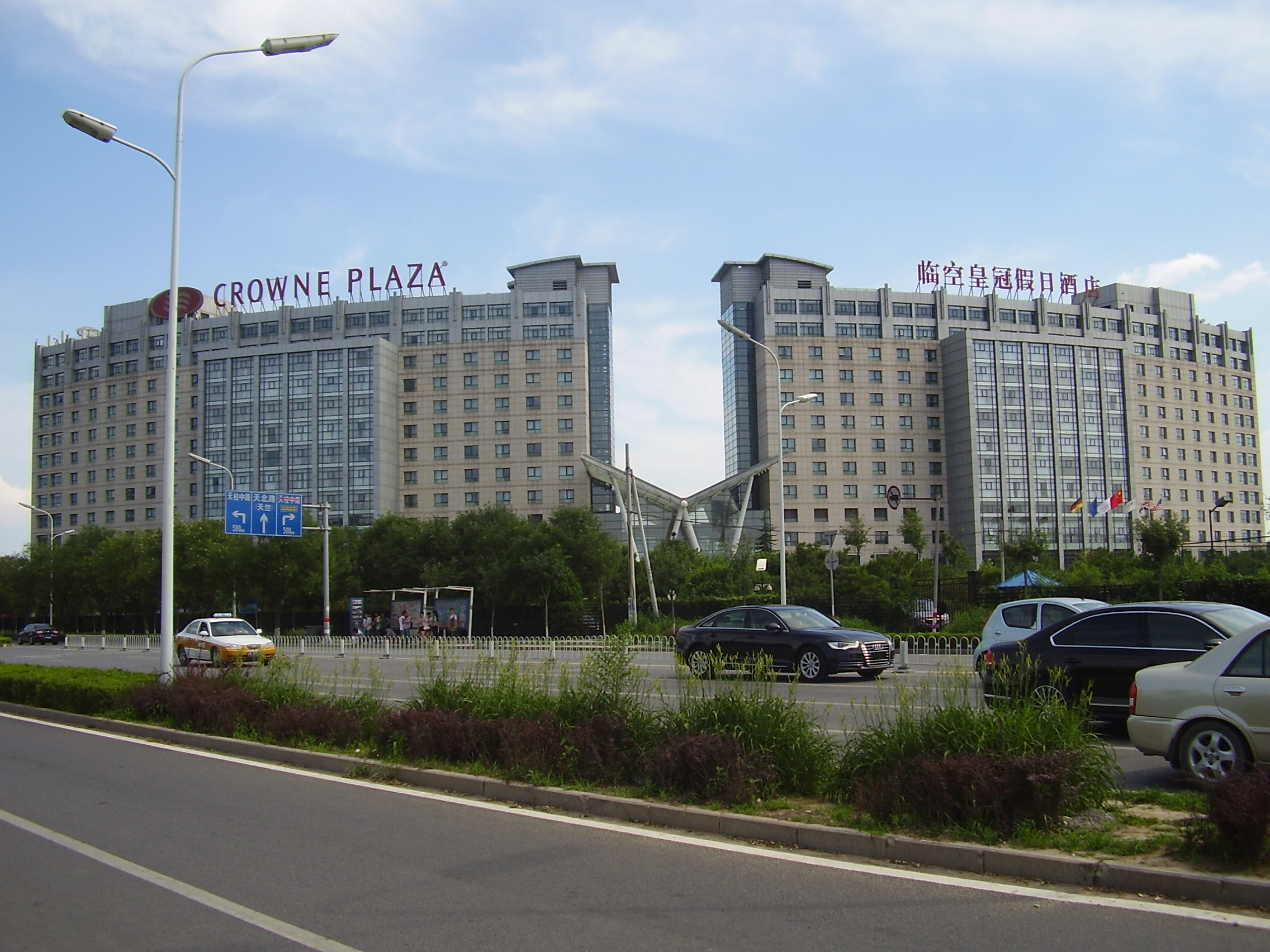 Crowne Plaza Beijing International Airport (S: 北京临空皇冠假日酒店 , T: 北京臨空皇冠假日酒店, P: Běijīng Lín Kōng Huángguānjiàrìjiǔdiàn) - No. 60 Fuqian 1 Street Tianzhu Shunyi District Beijing, 101312 China, People's Republic Of